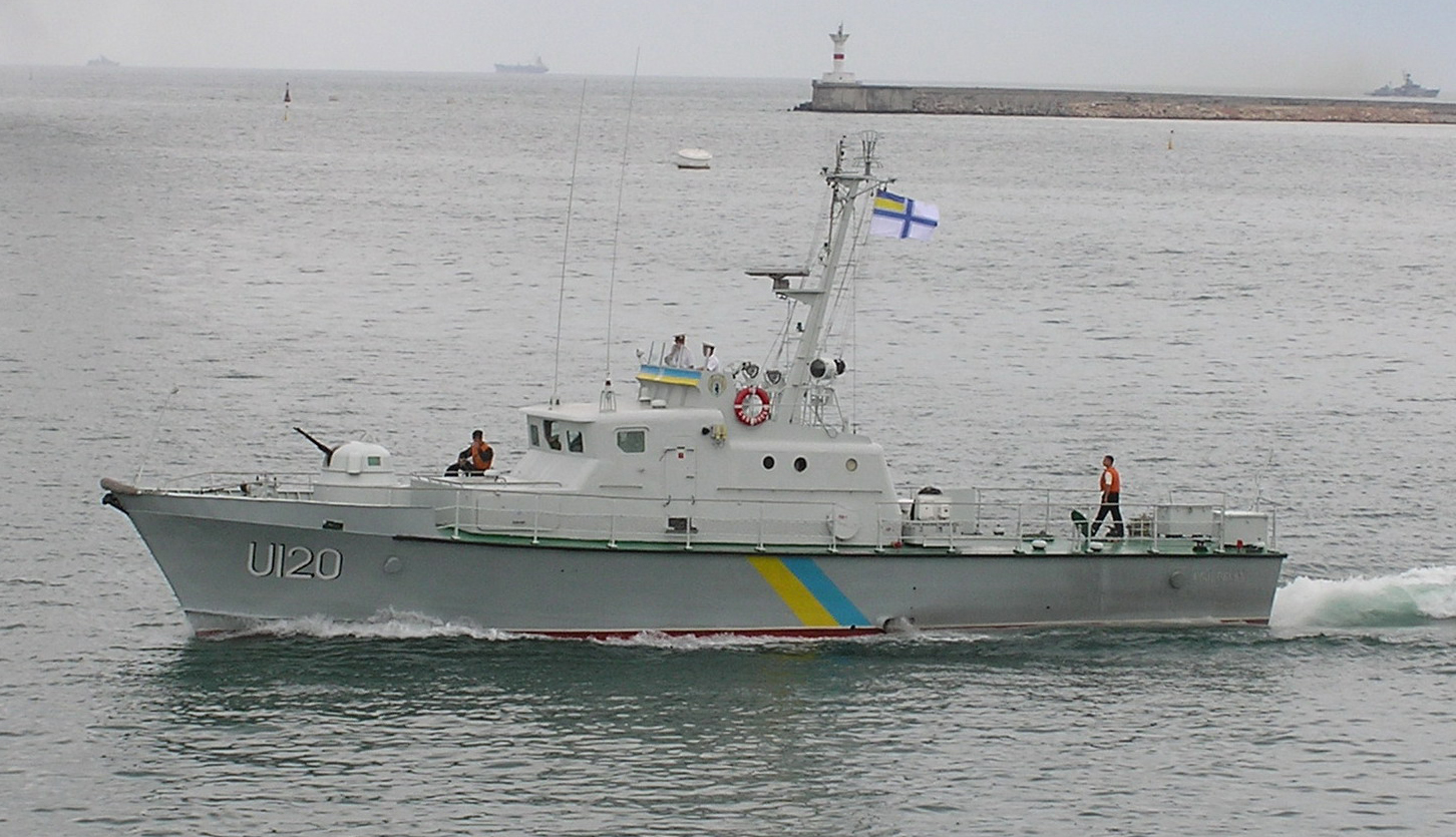 Ukrainian patrol boat U120 Skadovsk at Sevastopol Bay; Sevastopol, Ukraine